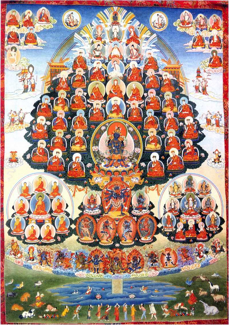 Painted thangka of Kagyu Refuge Tree; source website has clickable links to identify each figure